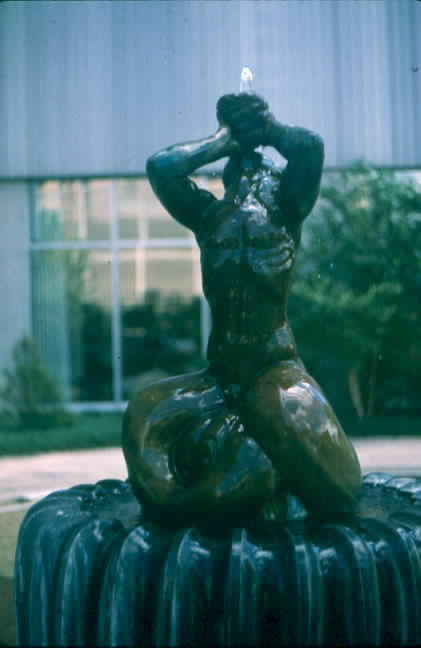 Triton Blowing on a Shell by Carl Milles at the Mayo Clinic in Rochester, Minnesota.[1]